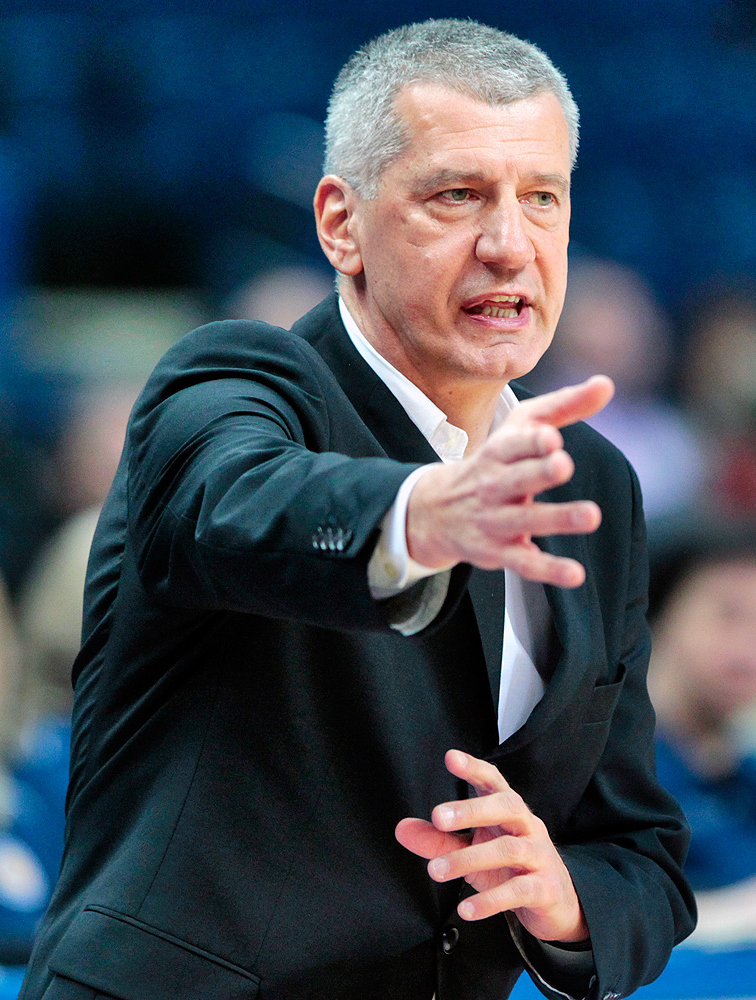 Basketball coach Aleksandar Petrovic